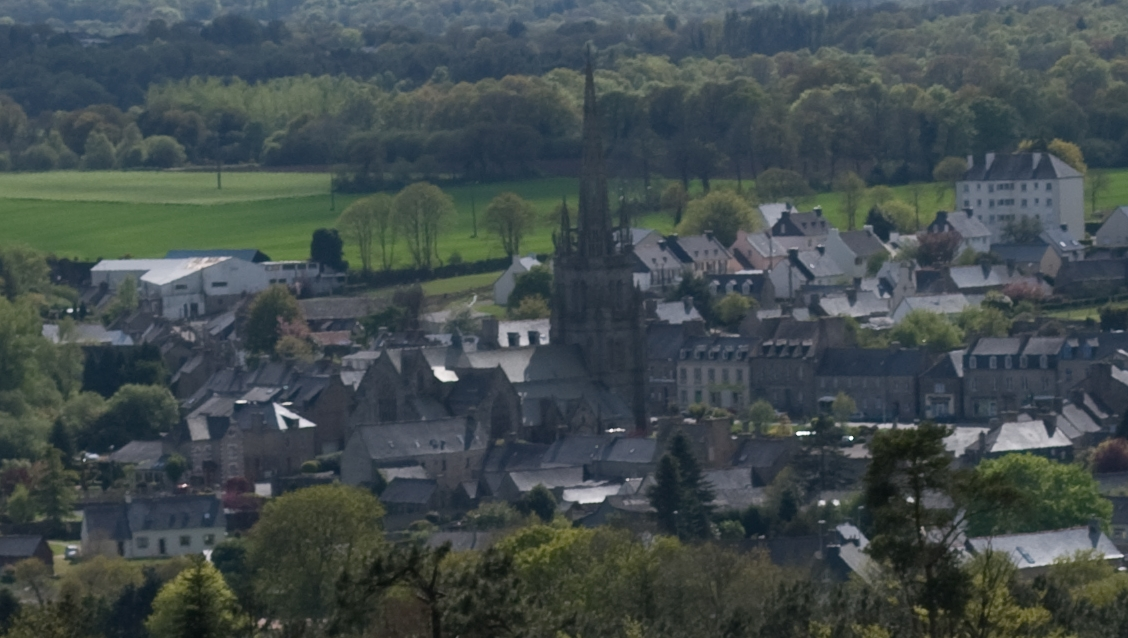 View of the center of Bourbriac's village (France).